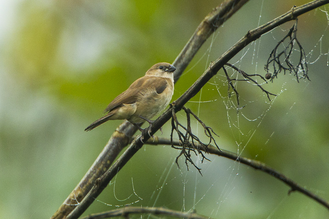 A Bar-breasted Firefinch (Lagonosticta rufopicta) in the Kakum National Park (Ghana)